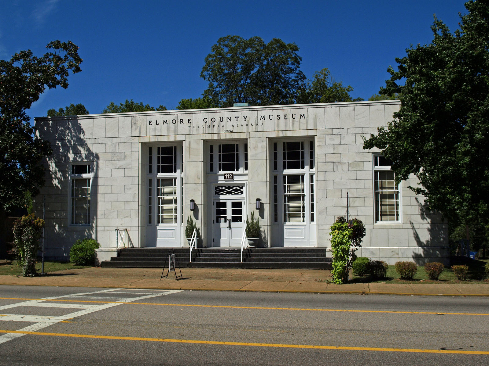 The Old Wetumpka Post Office, now the Elmore County Museum, in Wetumpka, Alabama